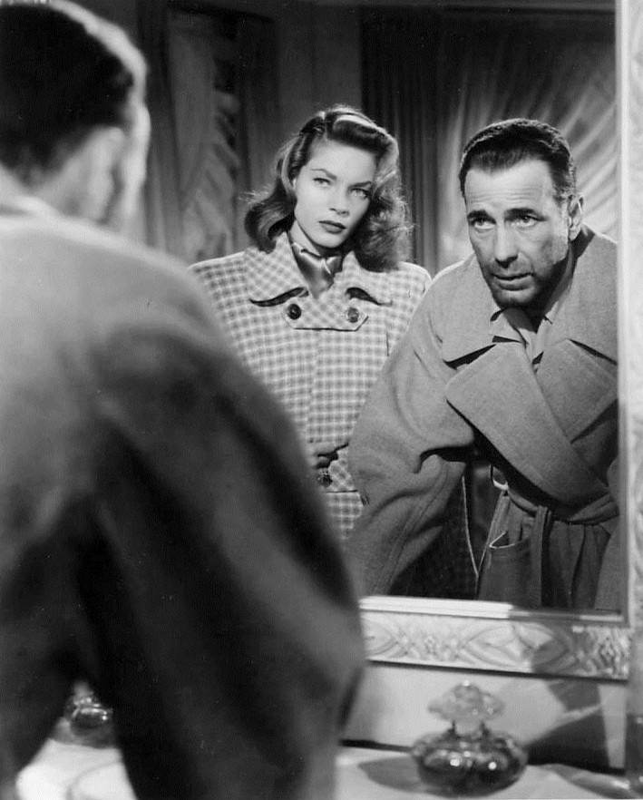 Photo of Lauren Bacall and Humphrey Bogart from the film Dark Passage.